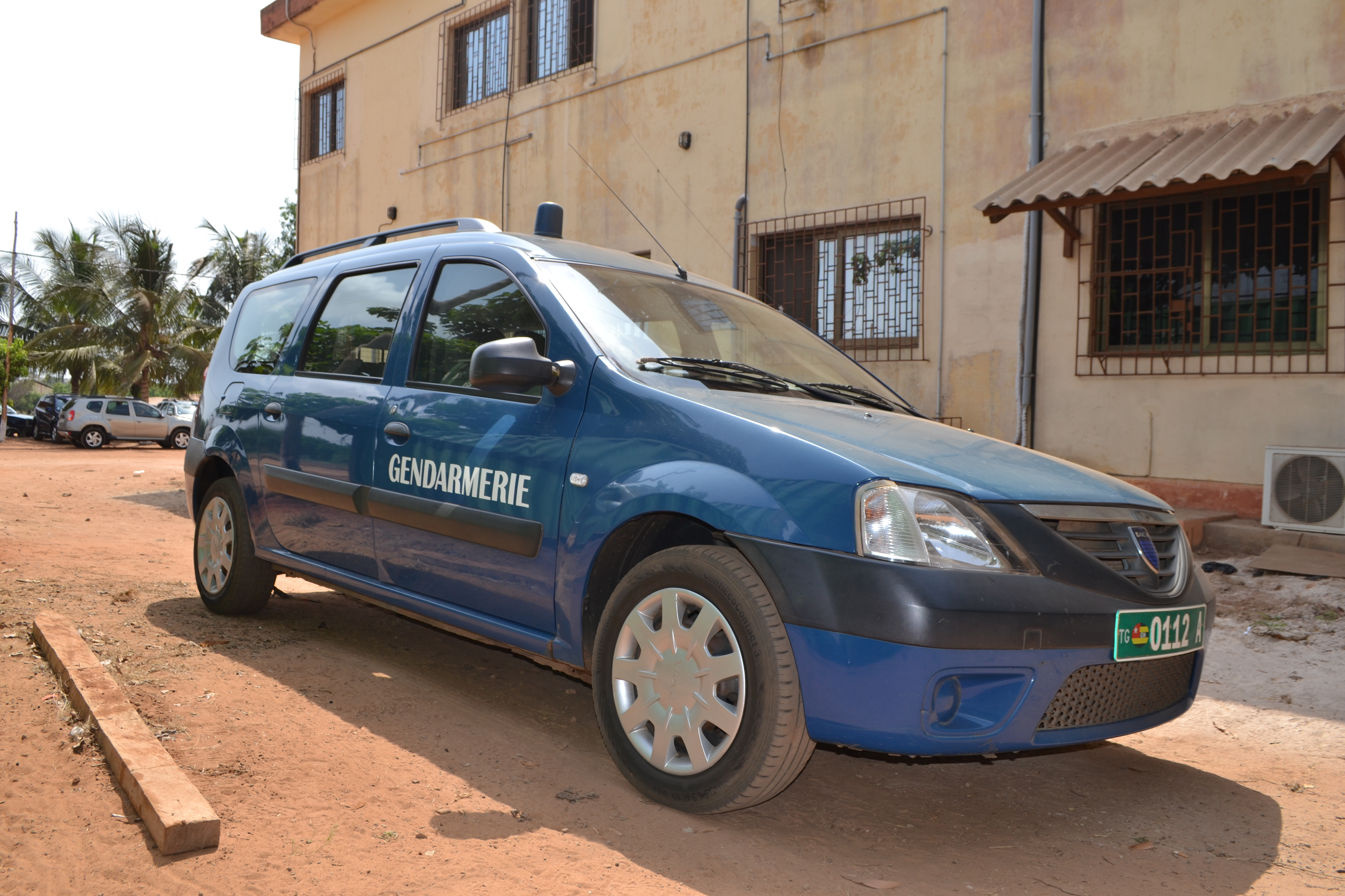 Dacia Logan MCV of the Togolese Gendarmerie. Photograph taken on the grounds of the Centre d’entraînement aux opérations de maintien de la paix.